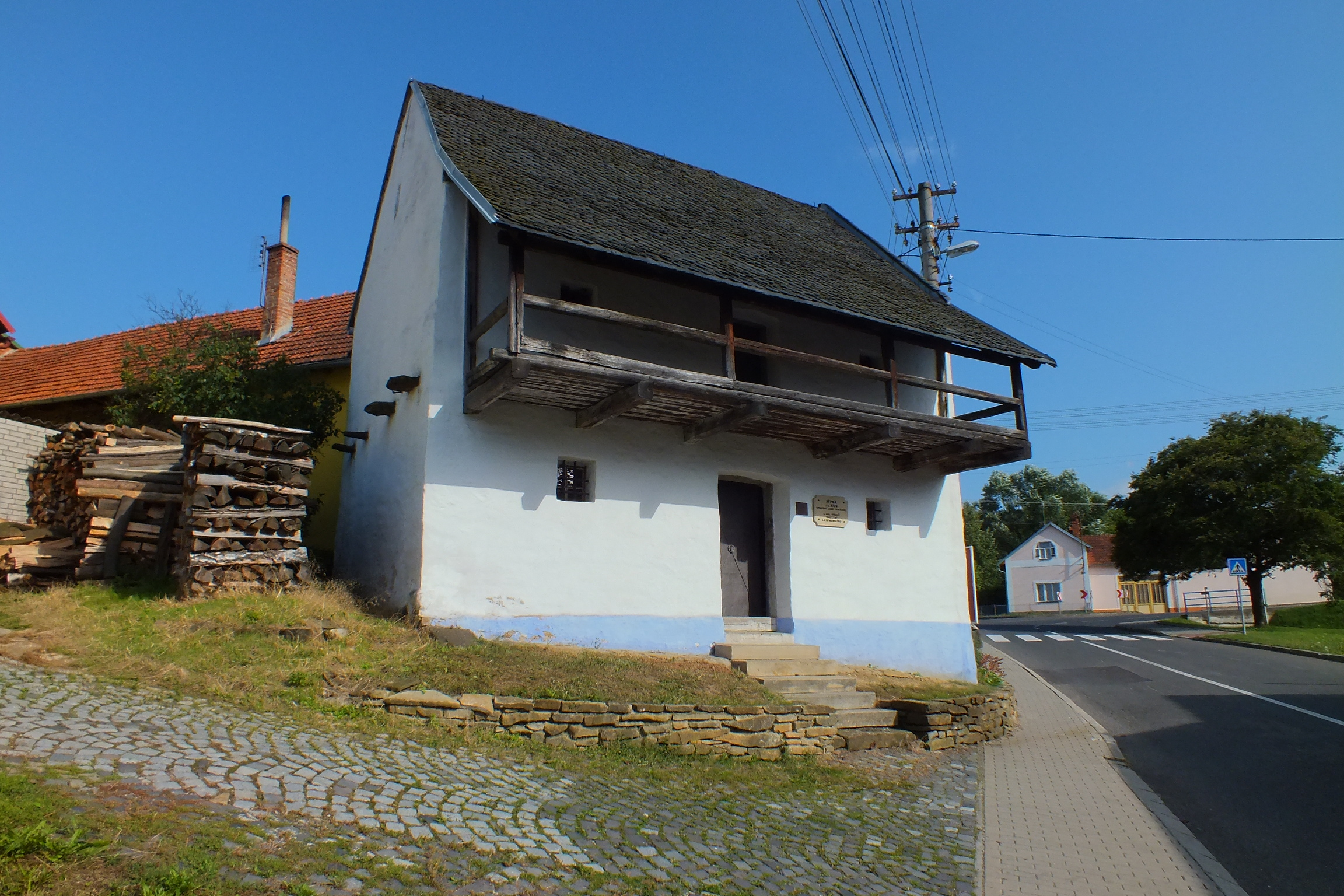 Memorial of J. A. Comenius, located in the building of a former granary in Komňa, the Czech Republic. The granary was built in 1774, the museum was established in 1992. Česky: Památník J. A. Komenského, umístěný v bývalé sýpce v obci Komňa v České republice. Sýpka byla postavena roku 1774, muzeum bylo založeno roku 1992.